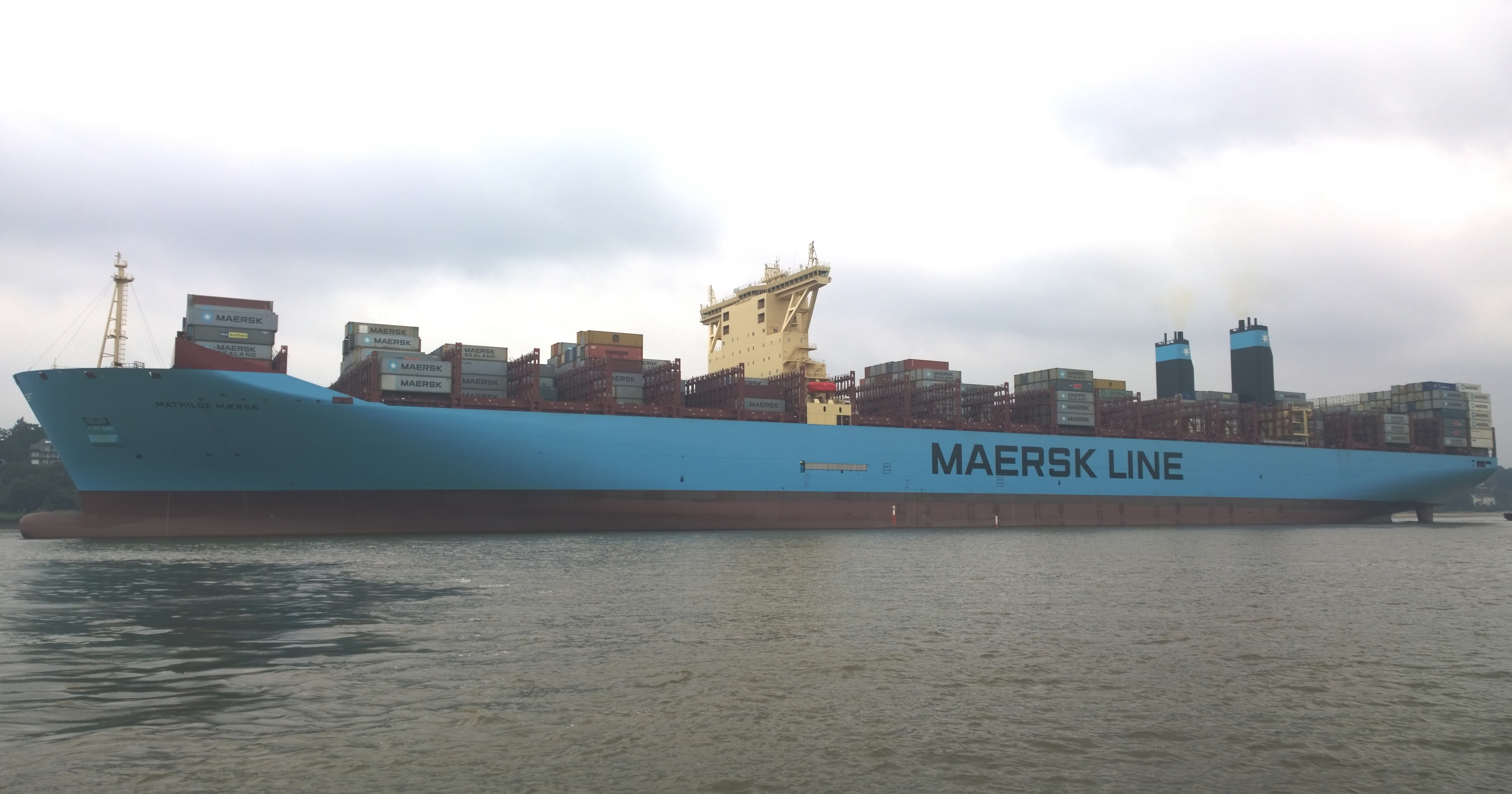 Container ship Mathilde Mærsk on the river Elbe in the August 2015